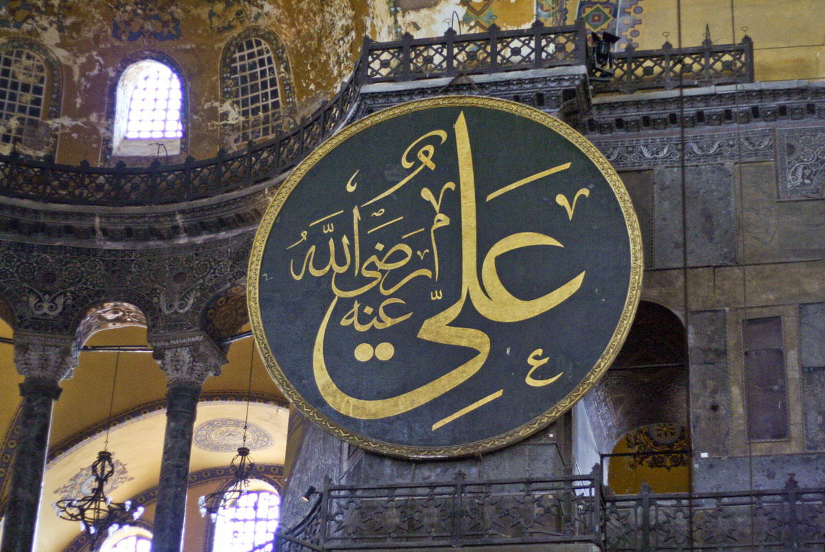 Islamic calligraphy in Hagia Sophia - Mustafa Issad Effendi